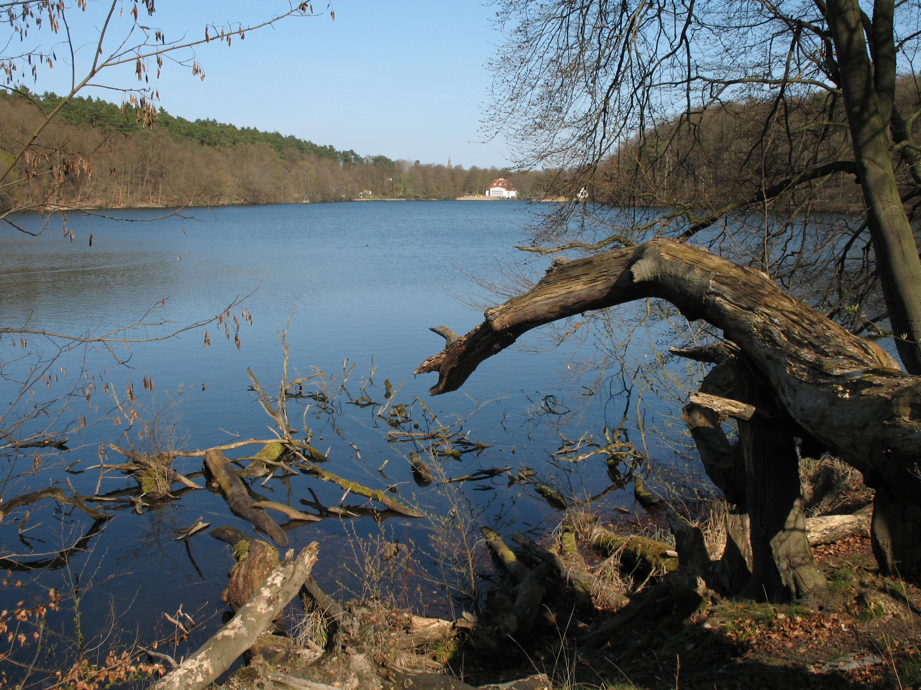 Lake in Wandlitz-Lanke in Brandenburg, Germany